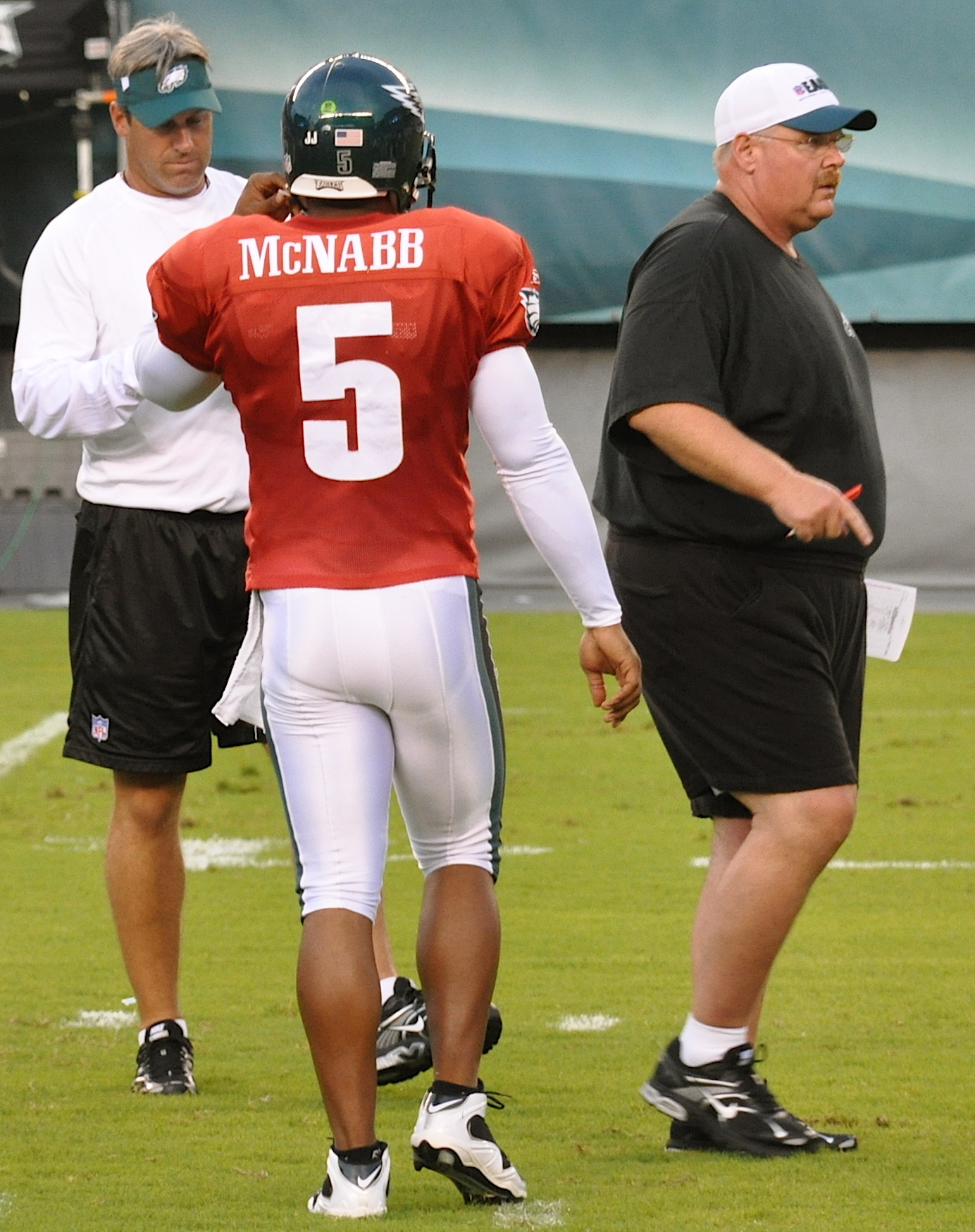 Philadelphia Eagles QB Donovan McNabb and head coach Andy Reid, during Flight Night 2009 at Lincoln Financial Field.